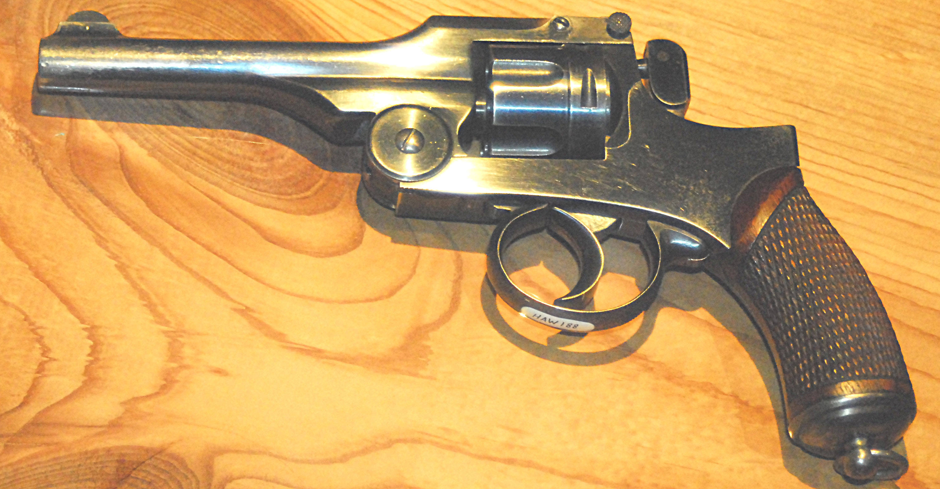 Type 26 revolver 9mm